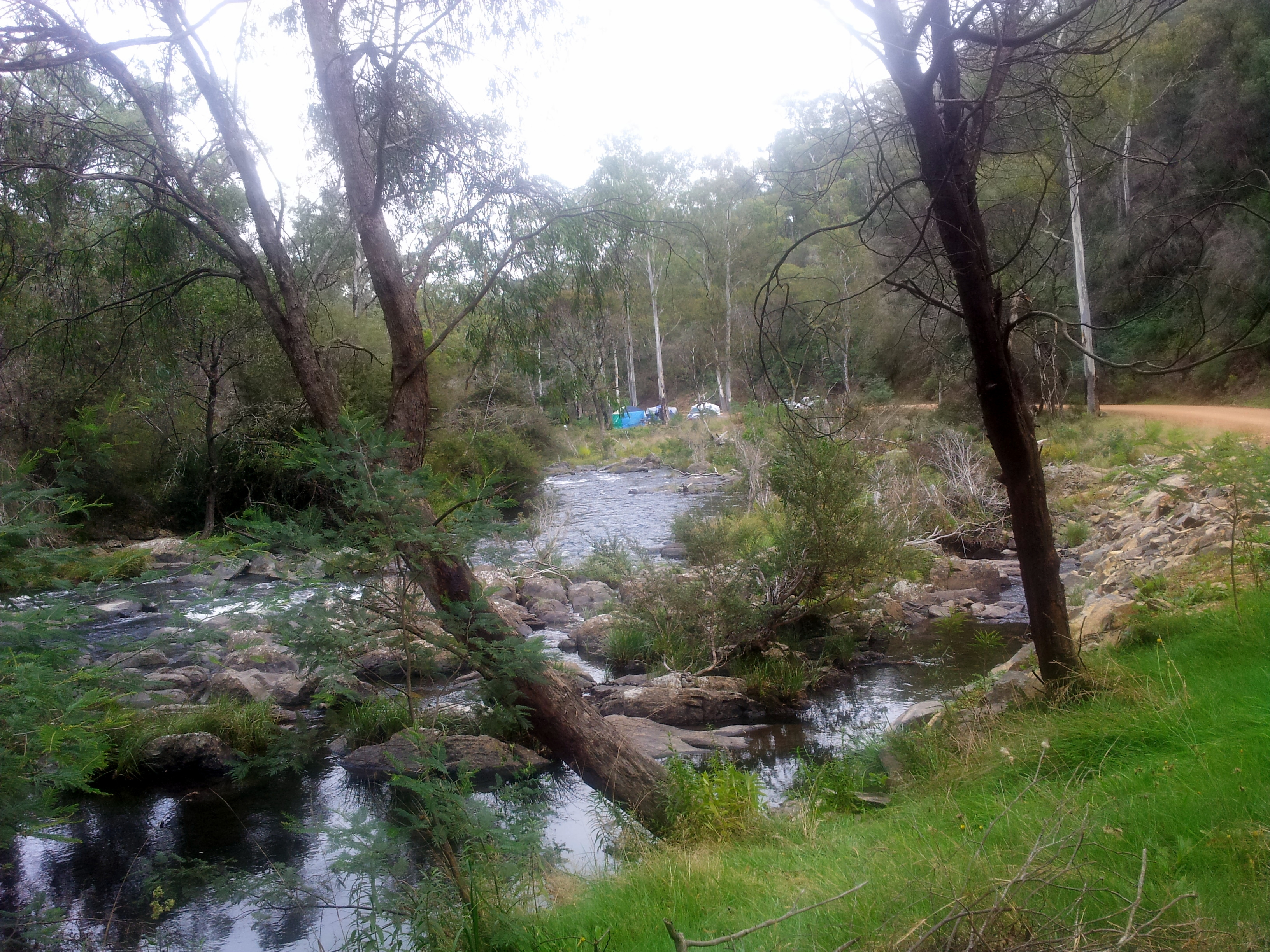 A campsite along Big River Rd, in northeastern Victoria, Australia.